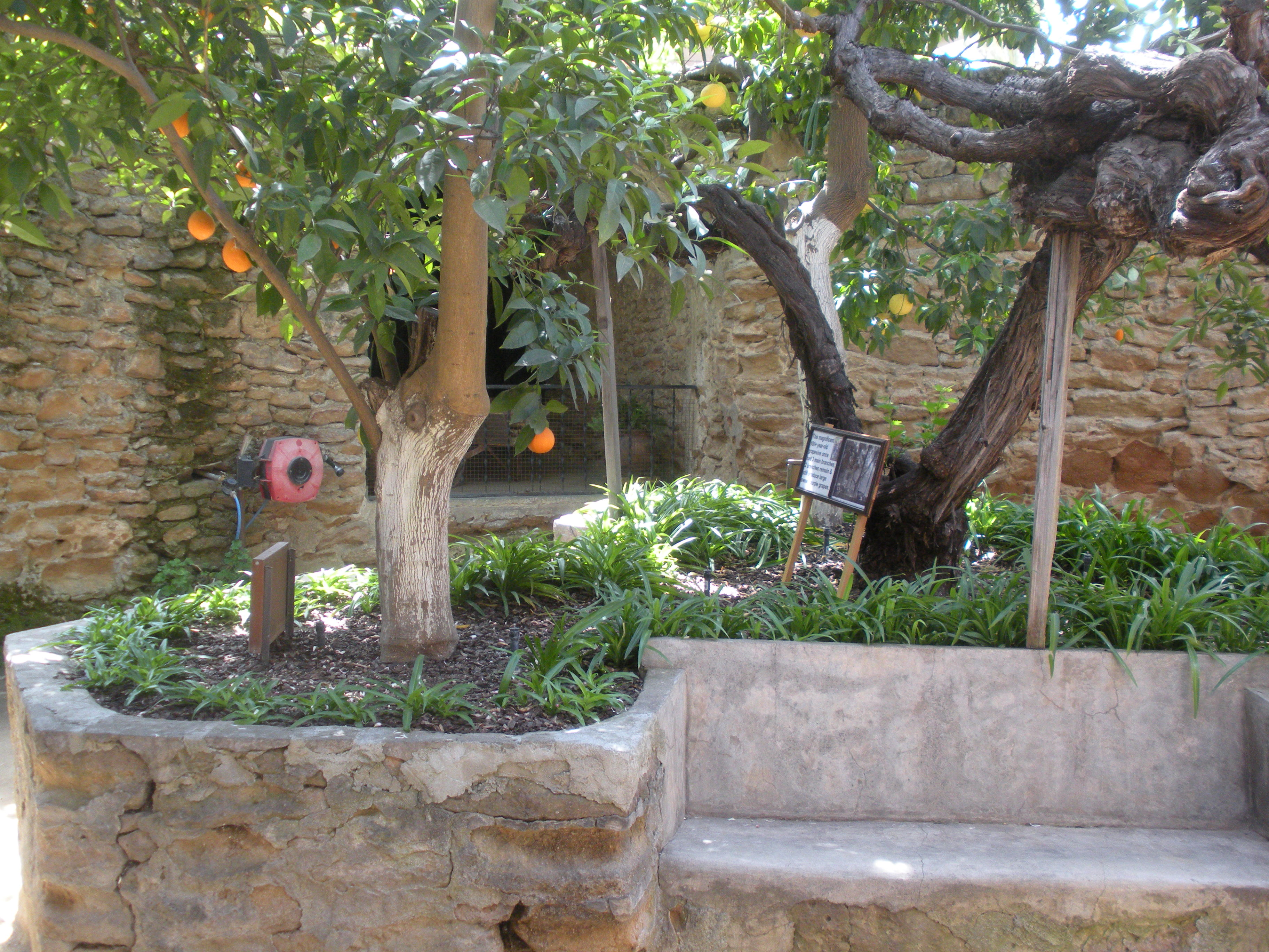 This is a pair of citrus trees at the Forestiere Underground Gardens. Originally posted on my Flickr